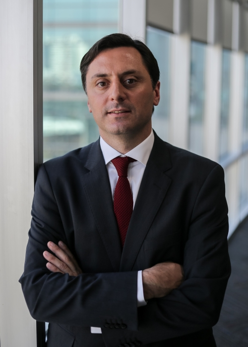 Official photo of Lucas del Villar Montt as National Director of SERNAC in 2018